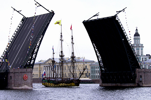 ST PETERSBURG. The Water Festival on the Neva River.